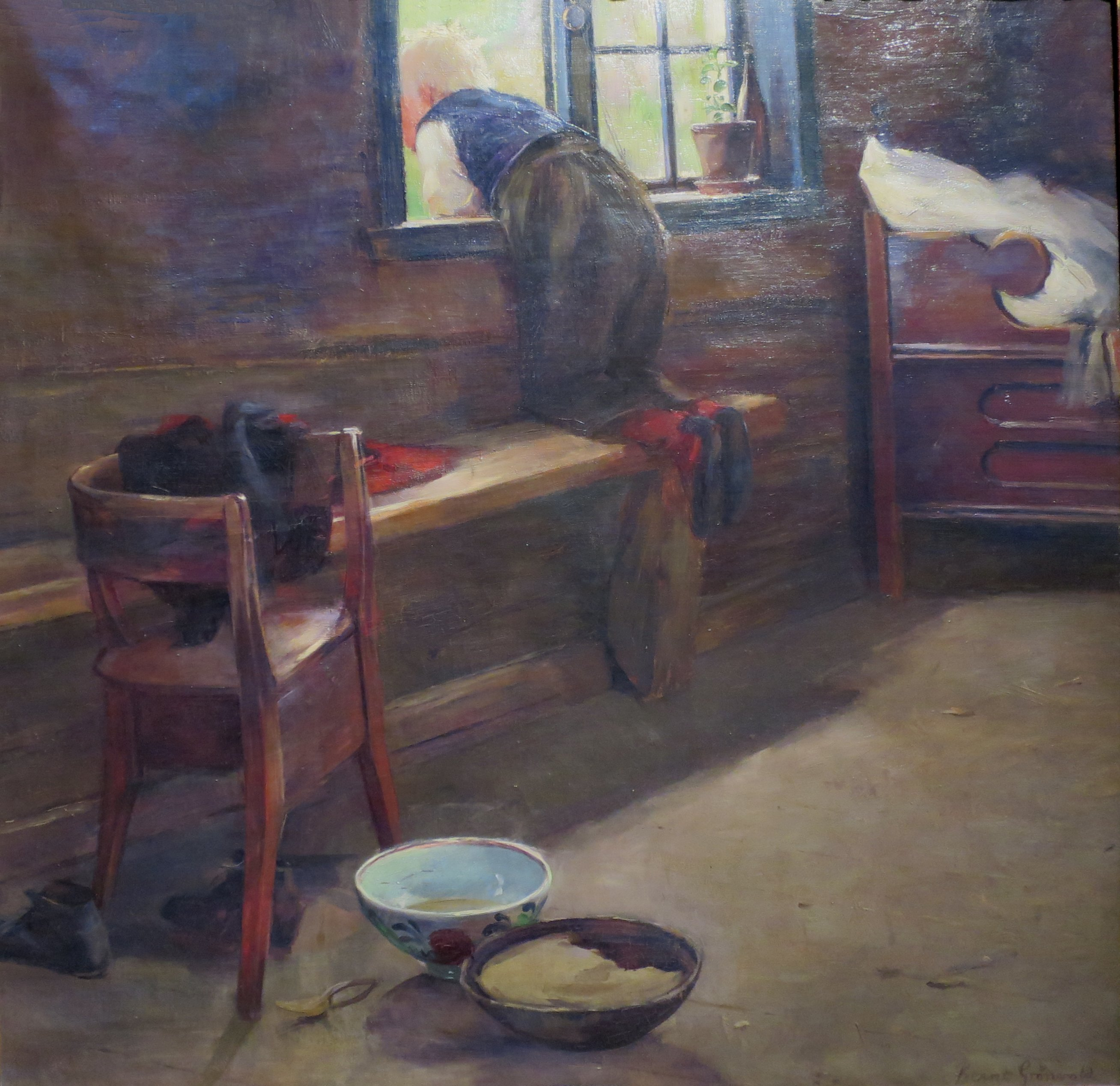 Farmhouse Interior by Bernt Grønvold, undated, oil on canvas, Bergen Kunstmuseum